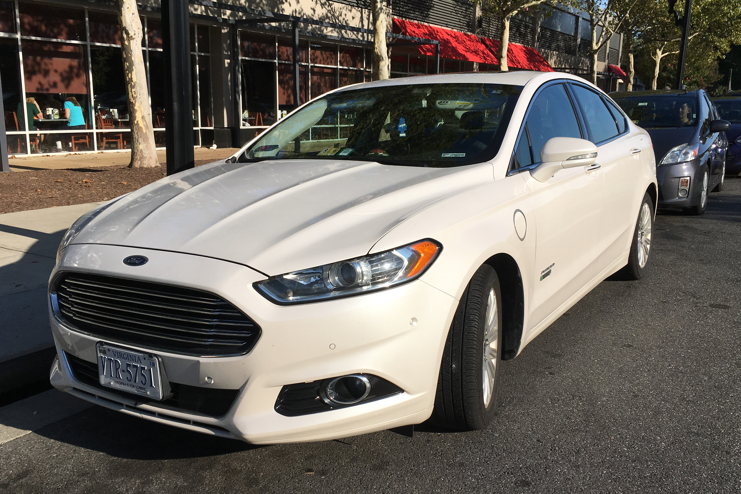 Ford Fusion Energi, Pentagon City, Arlington, Virginia.